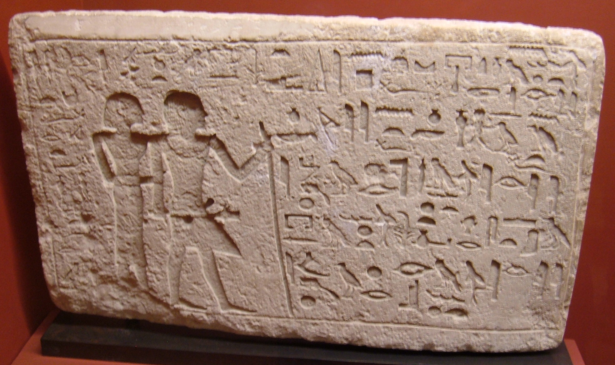 An offering stele of Iry, who claimed the titles "Overseer of the Palace Workmen" and "Beloved of his Father," and his wife Meru, Early First Intermediate Period. On display at the Rosicrucian Egyptian Museum in San Jose, California. RC 2067